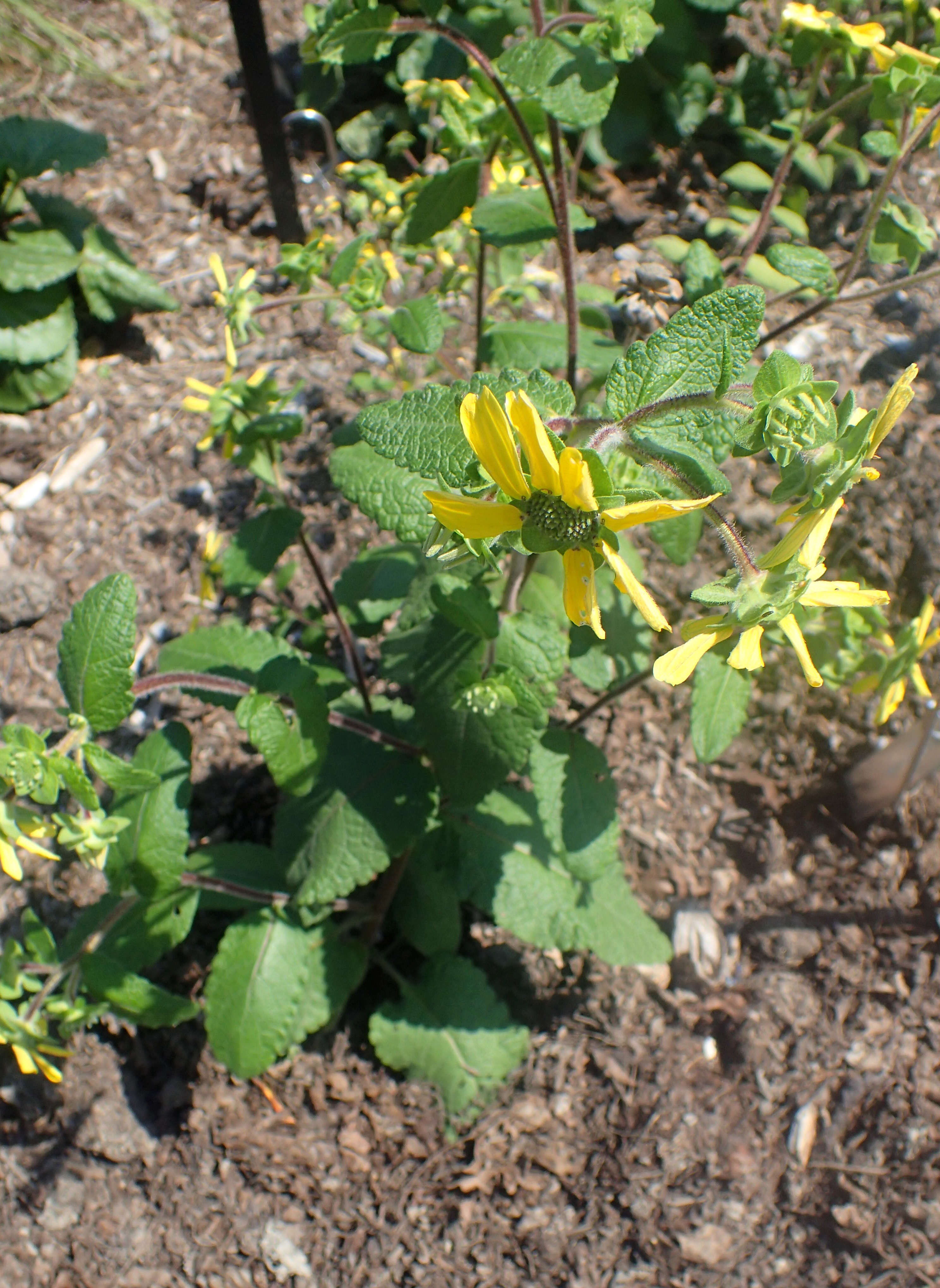 Berlandiera texana in the Missouri Botanical Garden, St. Louis